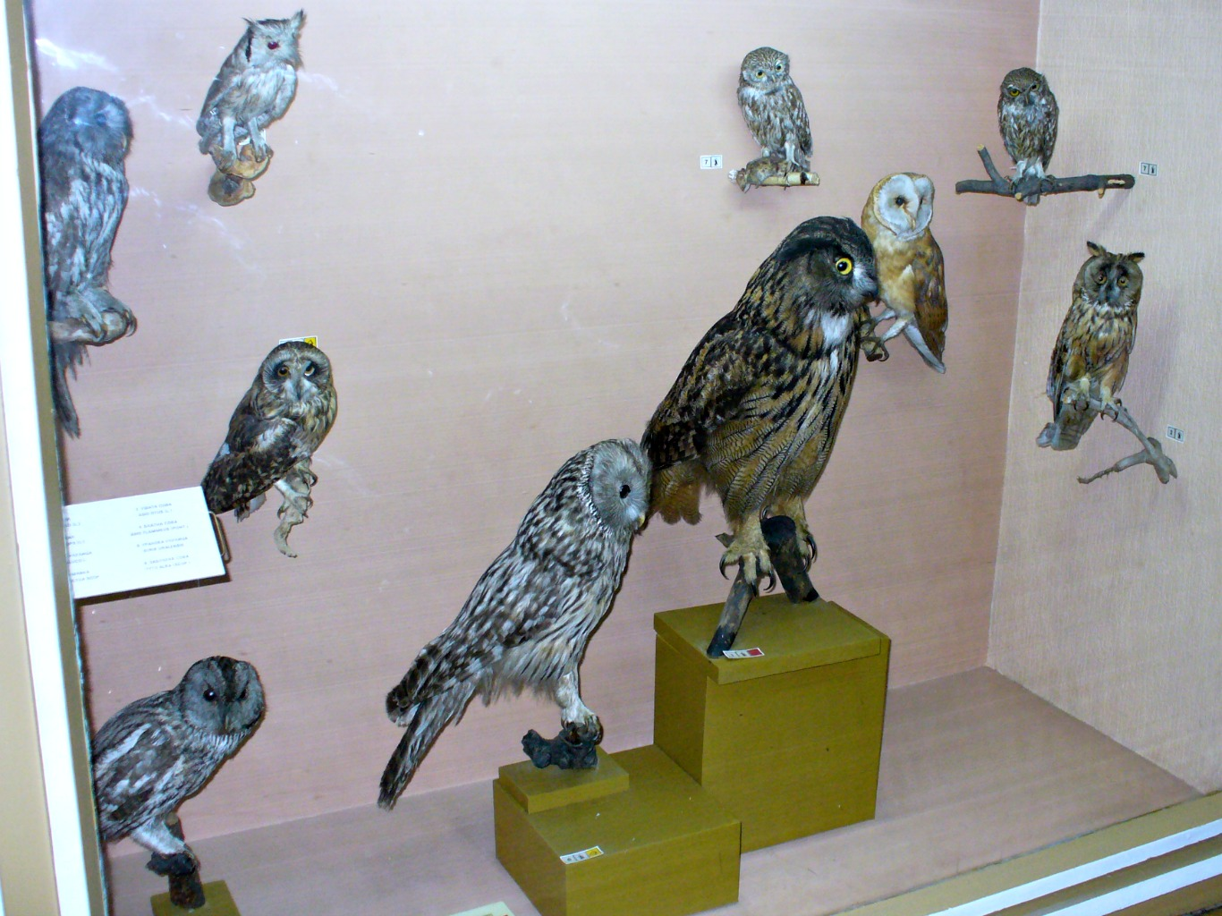 Museum of Natural History in Plovdiv - True owl